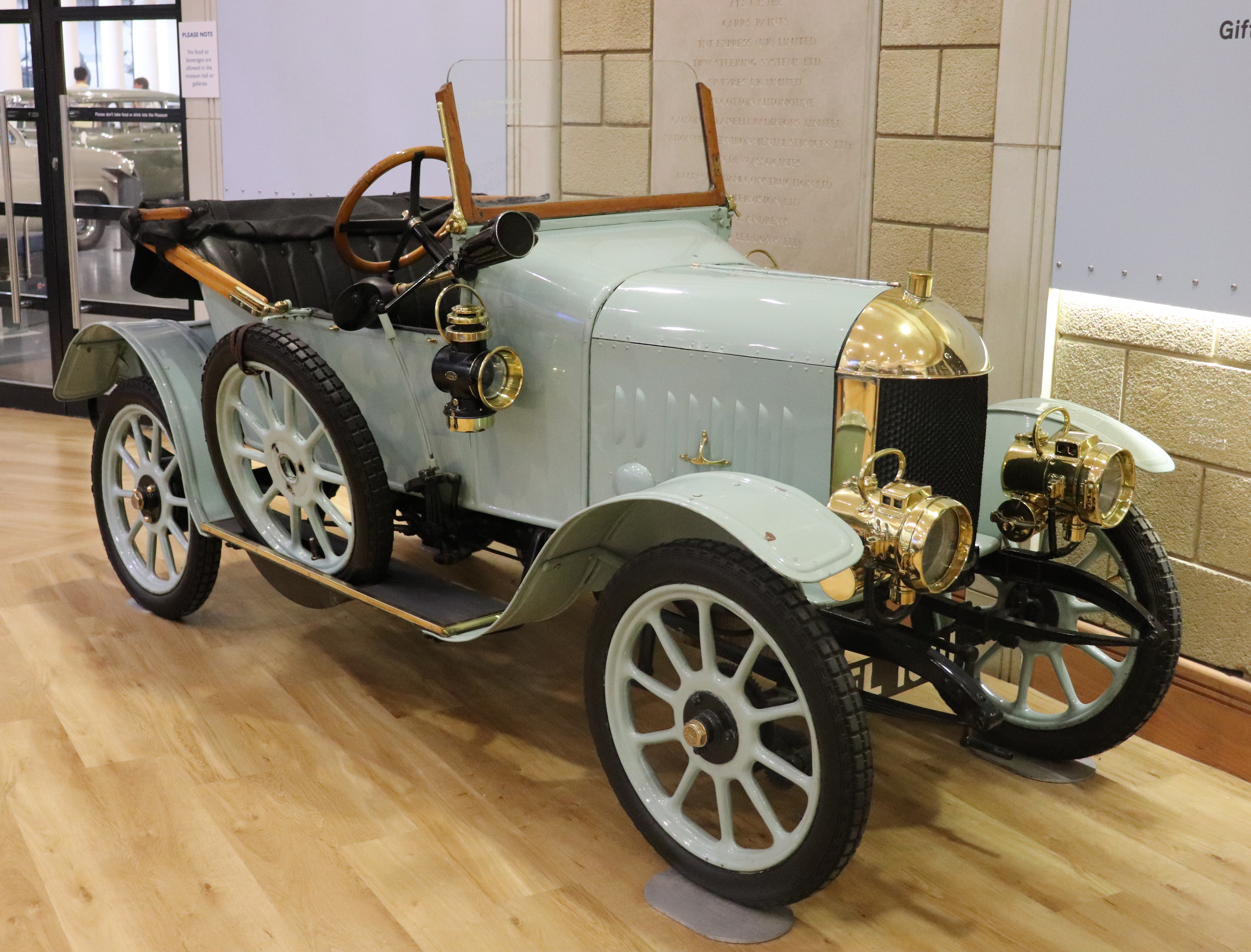 1913 Morris Oxford 10HP 'Bullnose' Front Taken at the British Motor Museum, Gaydon